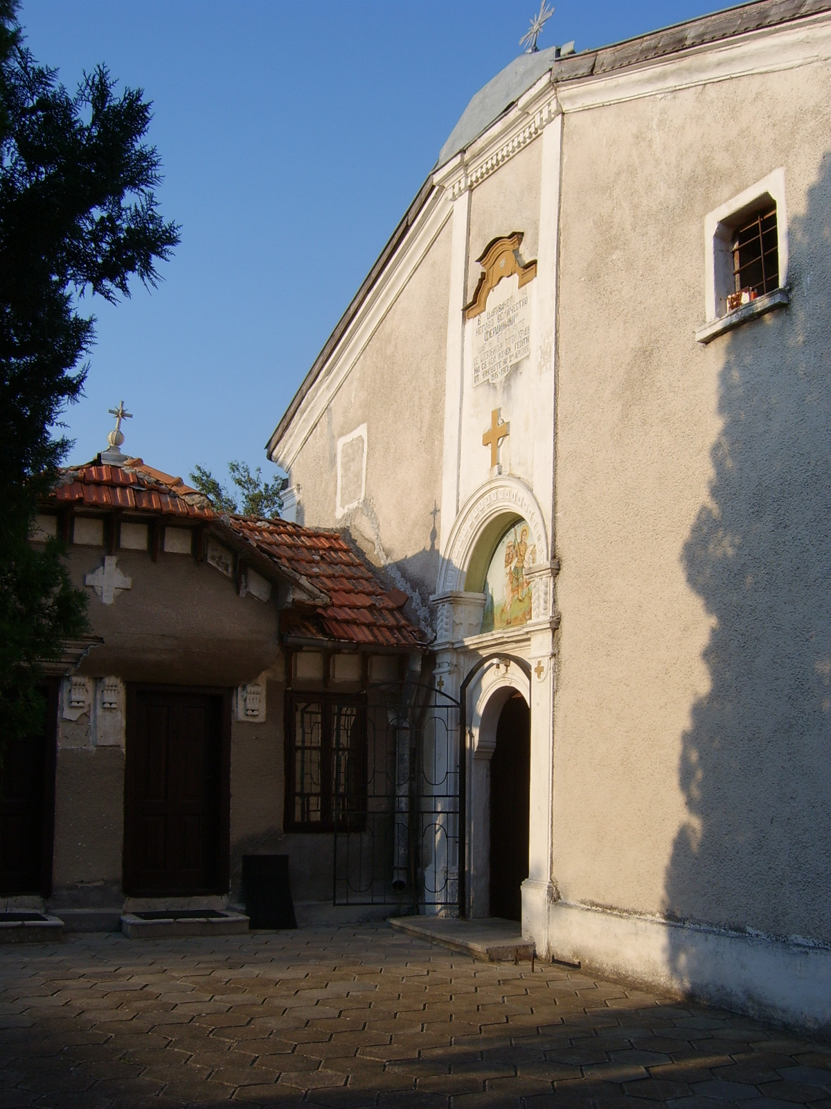 St.George Church in Levunovo, Bulgaria.